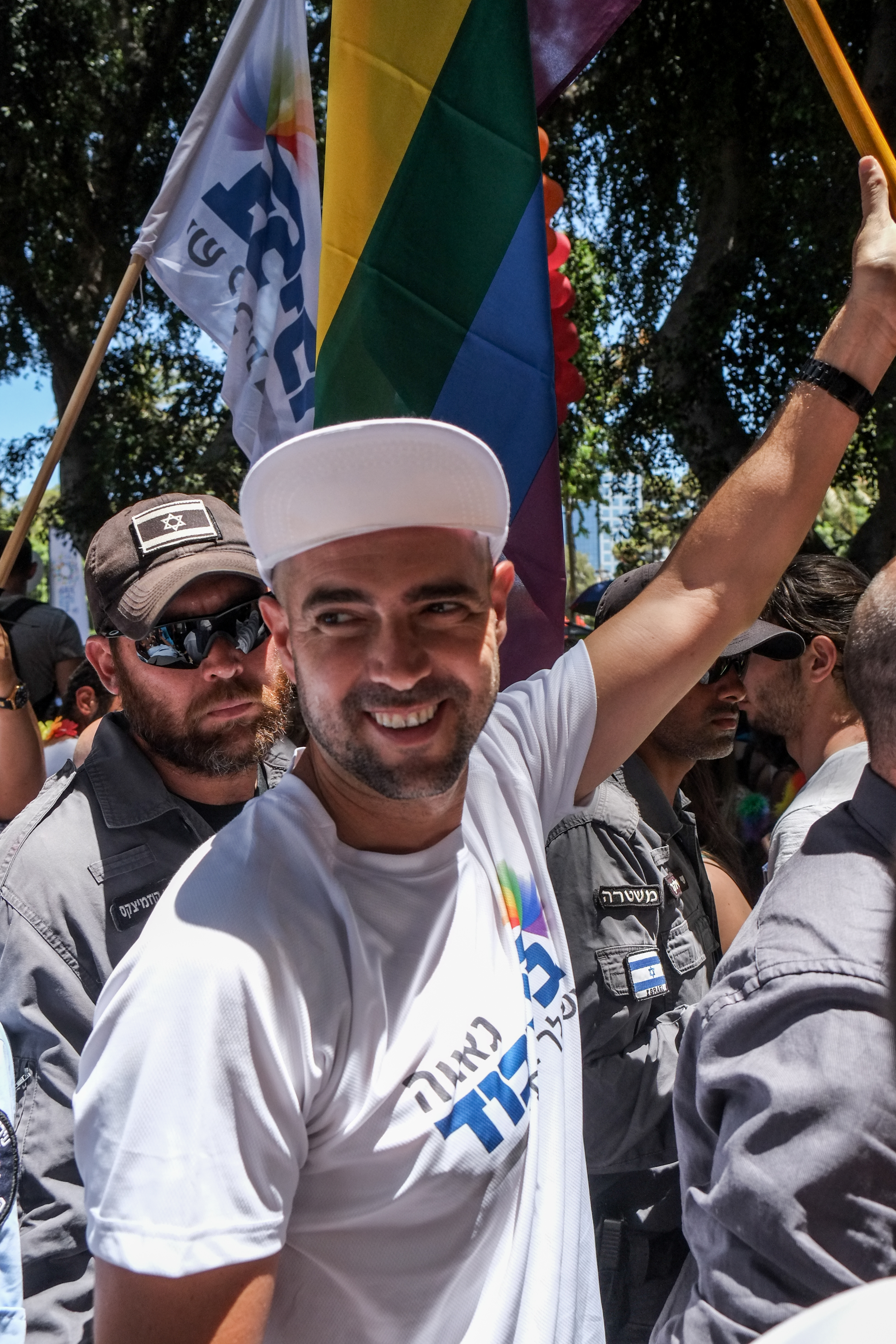 Amir Ohana on Tel Aviv LGBTQI Pride 2015